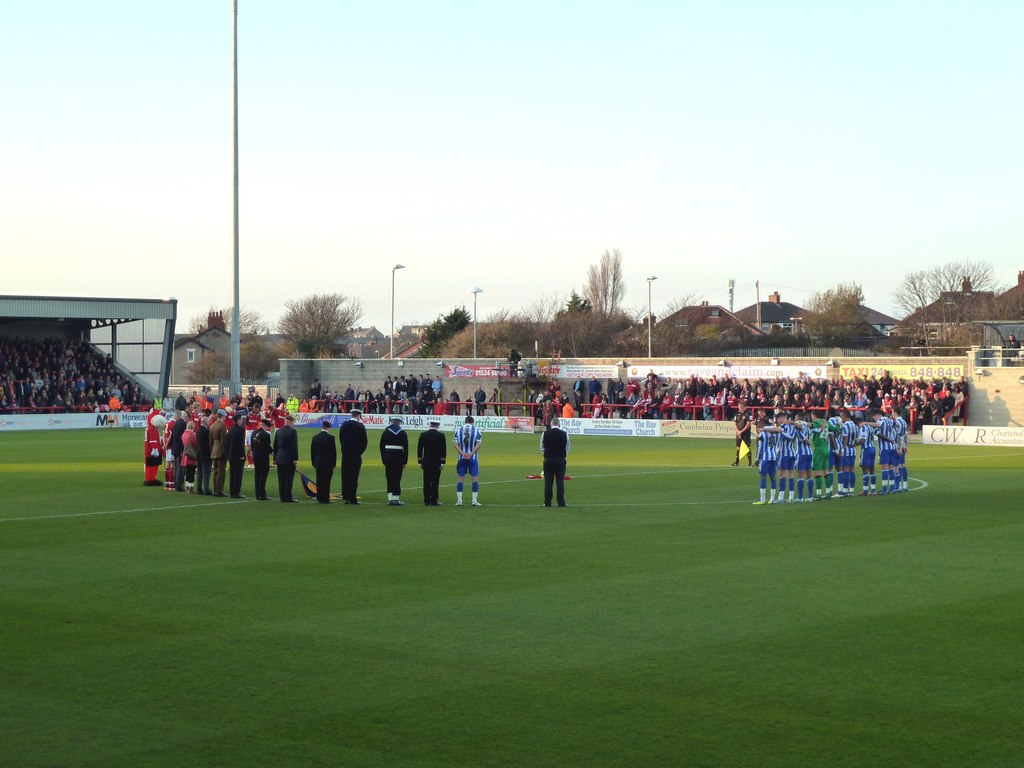 A minute's silence at the Globe Arena, near to Morecambe, Lancashire, Great Britain.